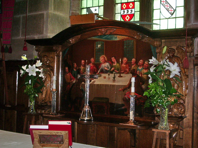 St Mary & St Michael Church, Great Urswick, Altar The altar has a painting of the Last Supper by the local painter James Cranke the Elder (1709-1781)